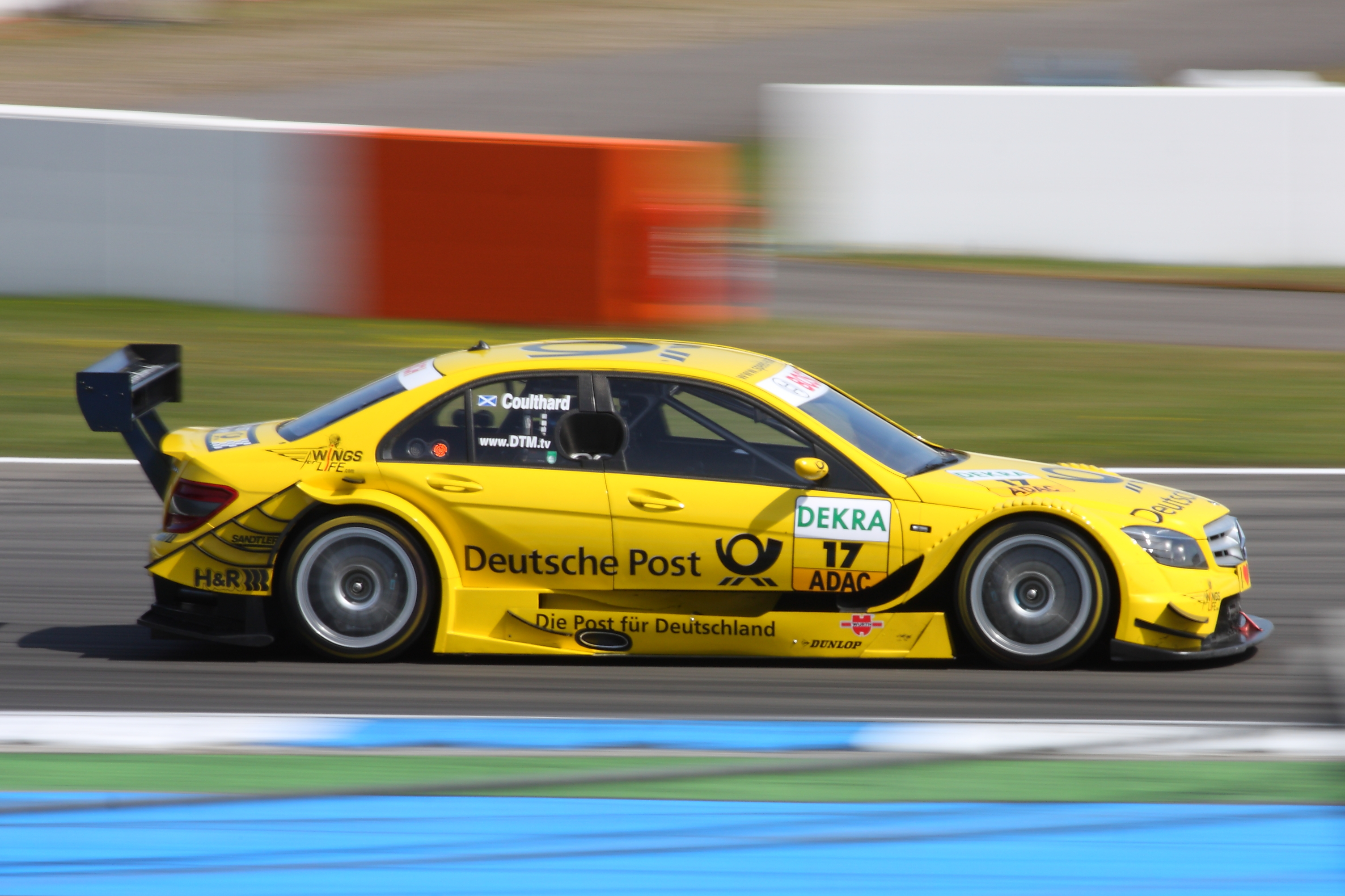 DTM car Mercedes-Benz Season 2010 (C-Class, W204), David Coulthard (driver)